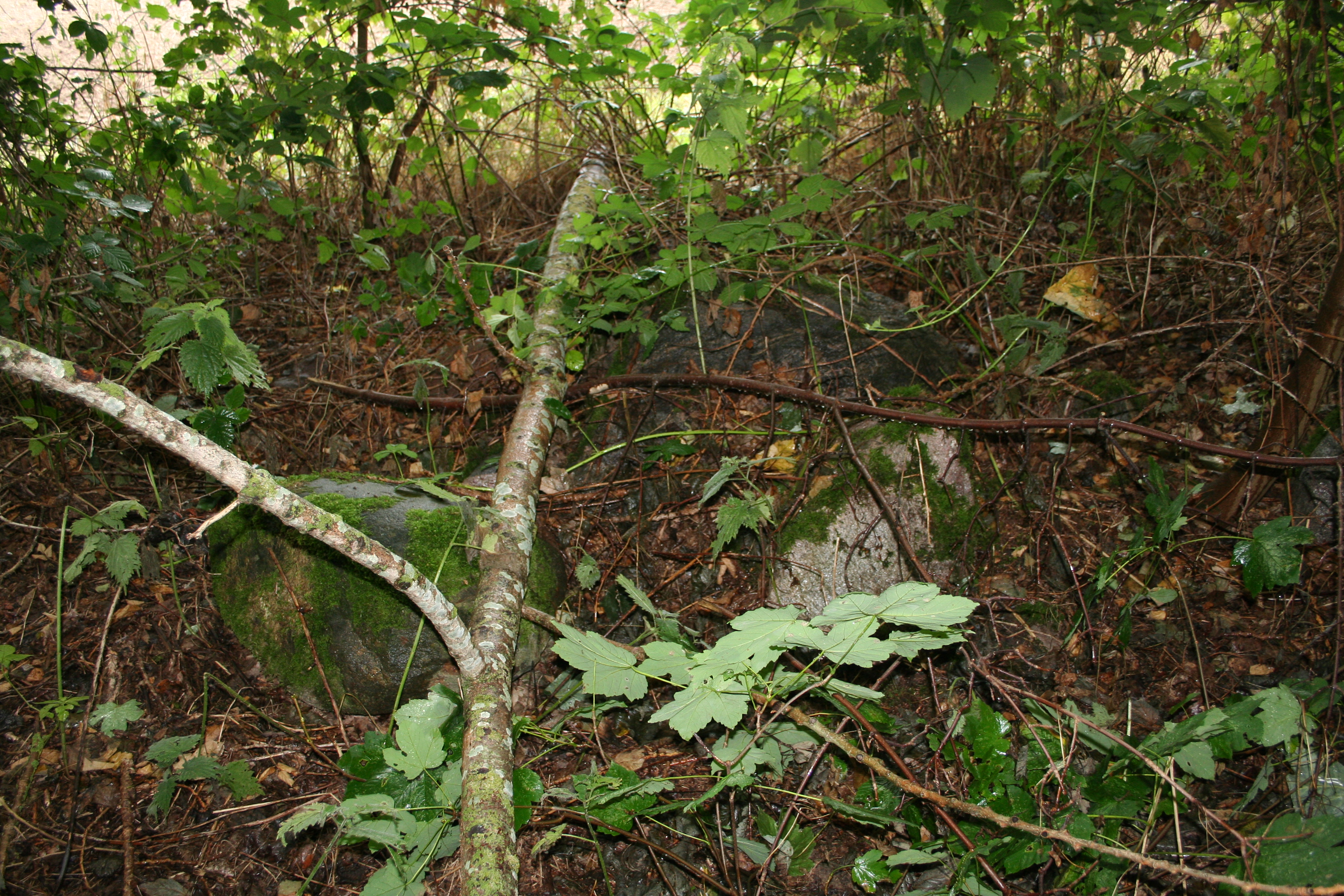 Megalithic tomb Lütow 4